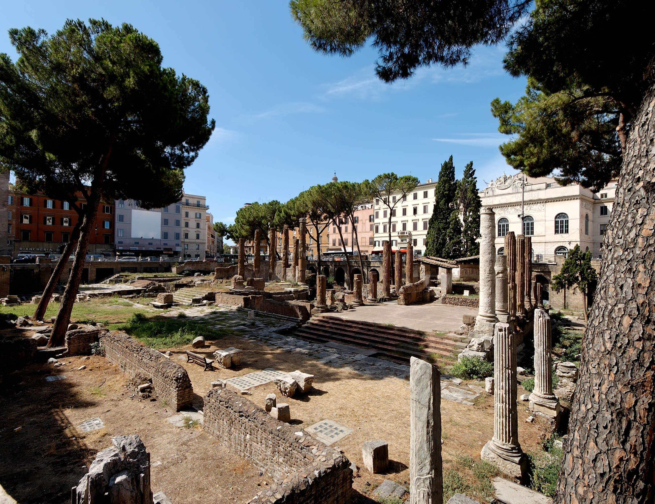 Largo Argentina in Rome with the ruins of four temples of the Republican Era (3rd-2nd centuries BC).